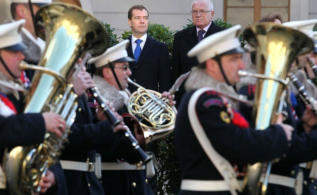 Dmitry Medvedev and President of the Czech Republic Vaclav Klaus held talks in Prague. Following their meeting, the two presidents presided over the signing of a number of bilateral agreements on cooperation between Russian and Czech companies. Mr Medvedev also took part in the opening of an exhibition showcasing items from the collections of the Moscow Kremlin museums at the Prague Castle and held talks with Czech Prime Minister Petr Necas.